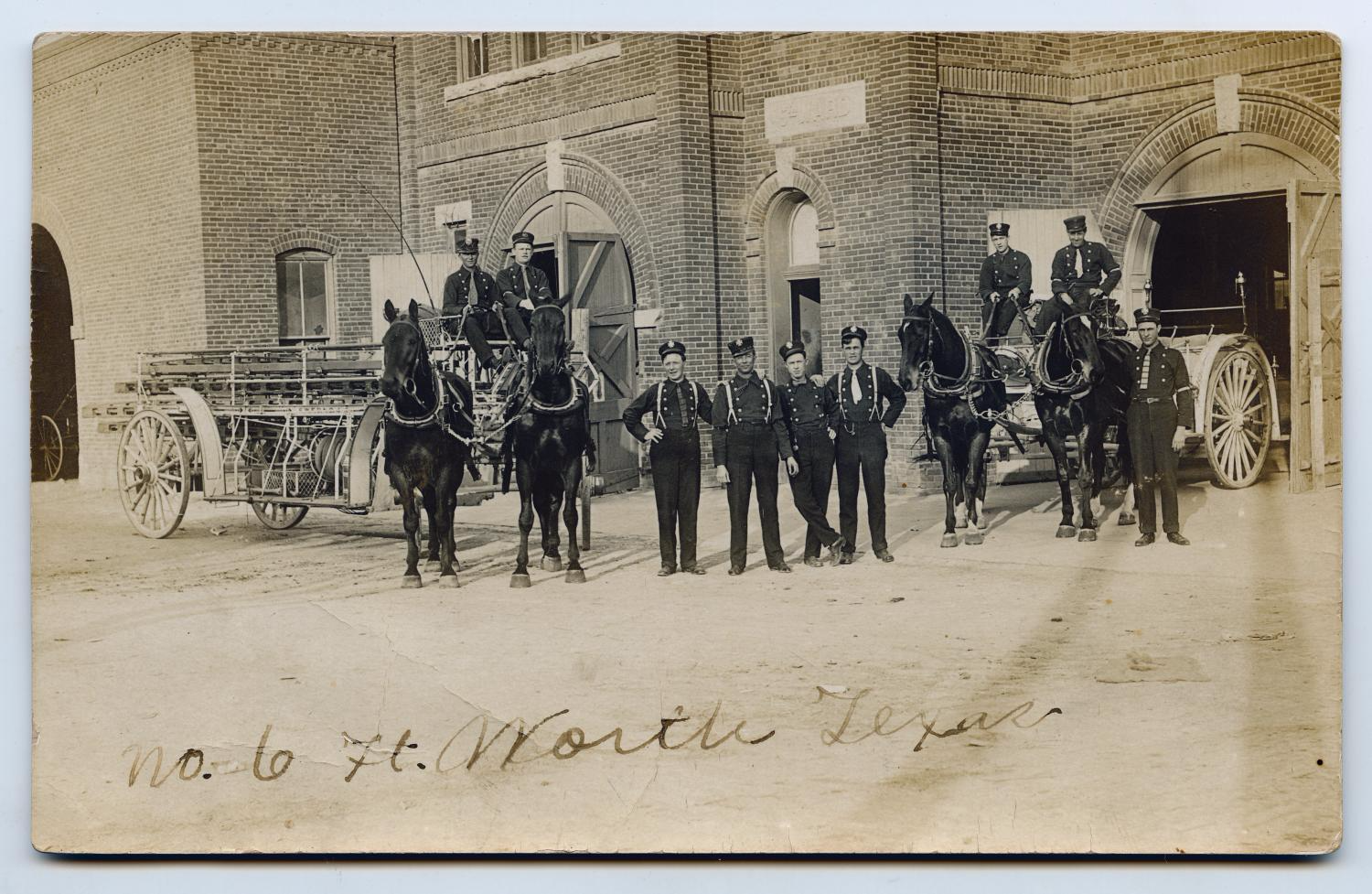 horse drawn fire apparatus owned by the city of Fort Worth circa 1909-1912